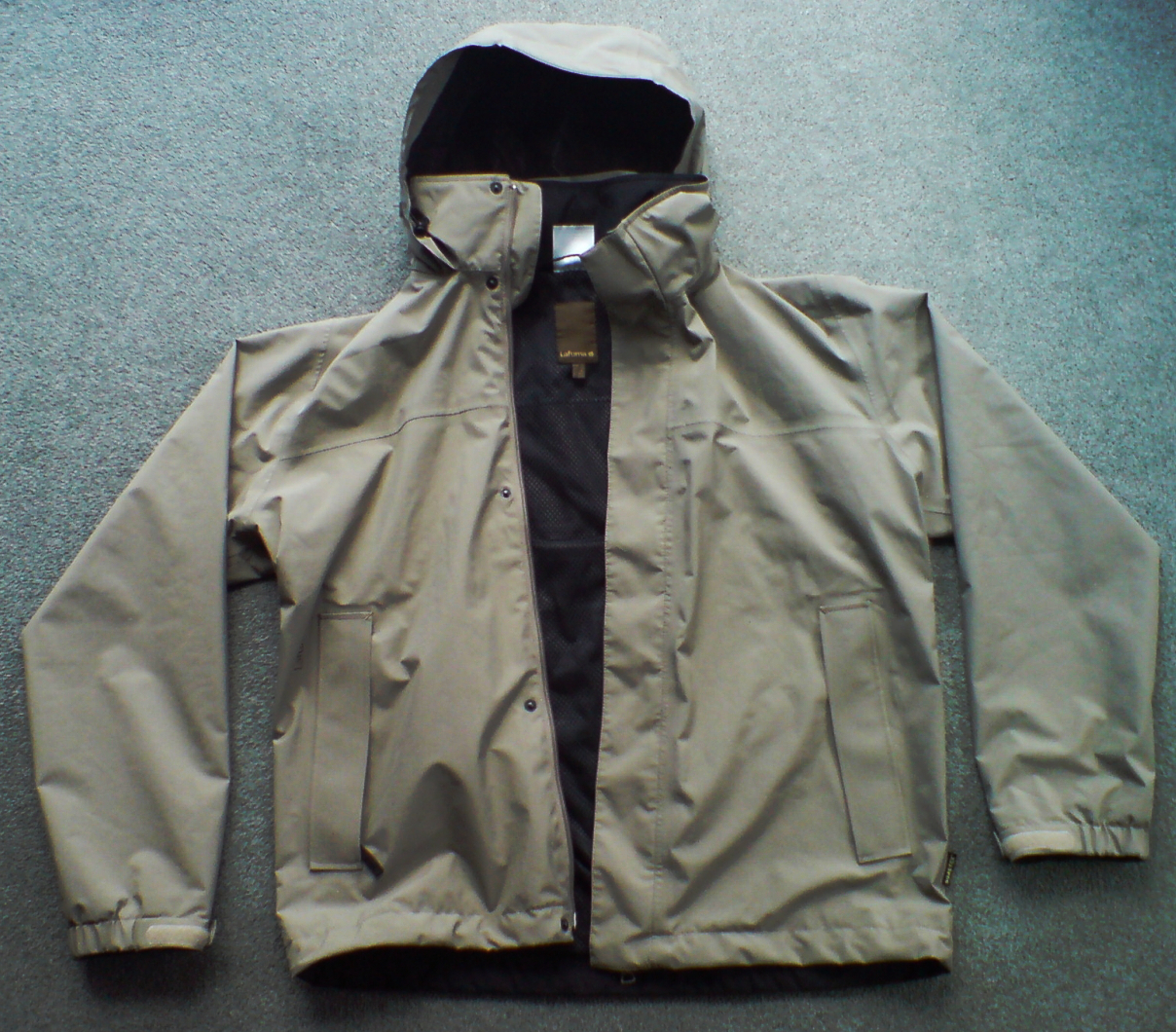 A windbreaker with the collapsible hood outside.